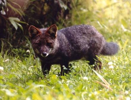 A male Darwin's fox in western coast of Chiloe, Chile Mapudungun: Wentru paynengürü Chillwe Wapi ñi nag lafken mapu mew